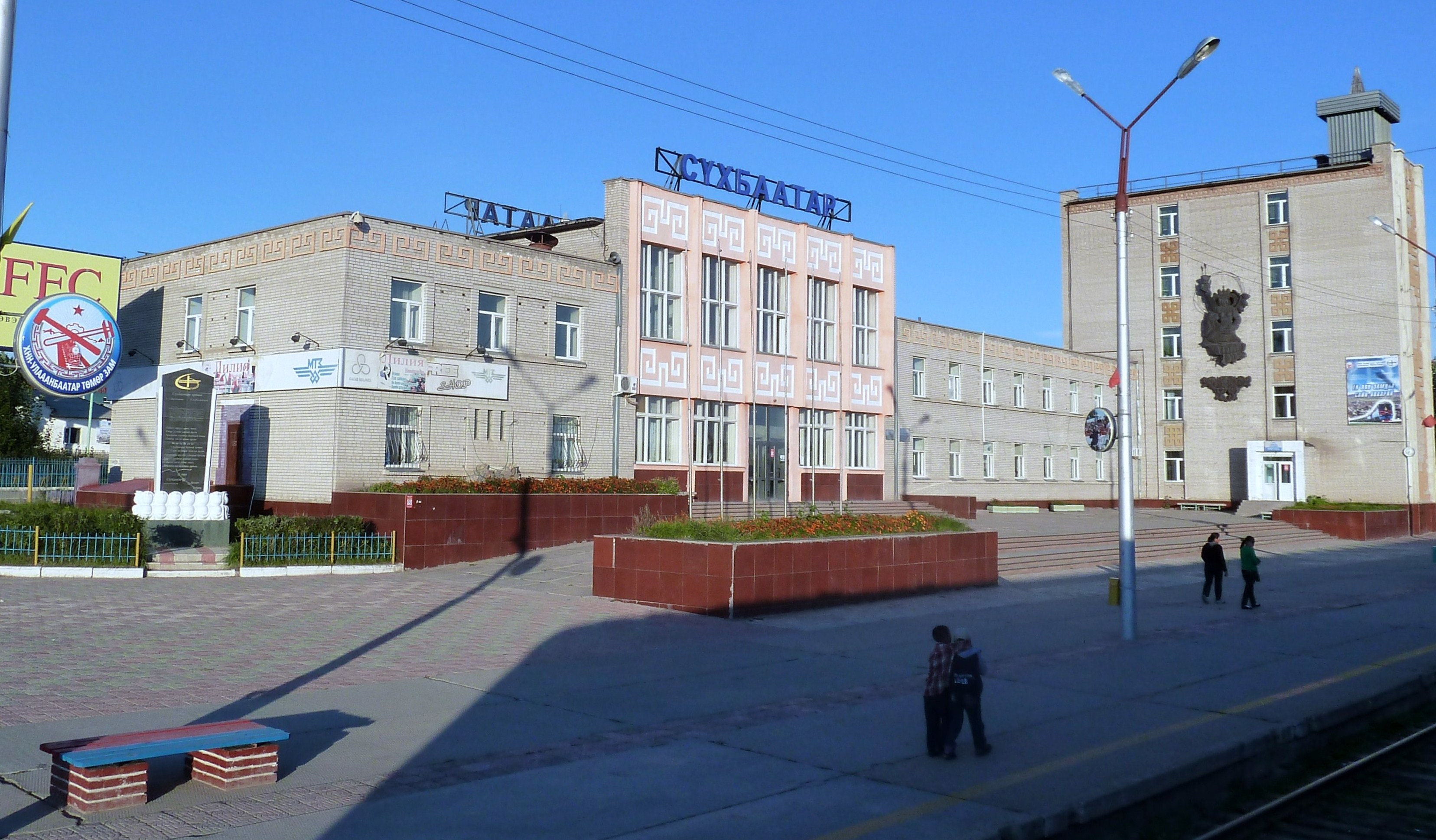 Sükhbaatar railway station.